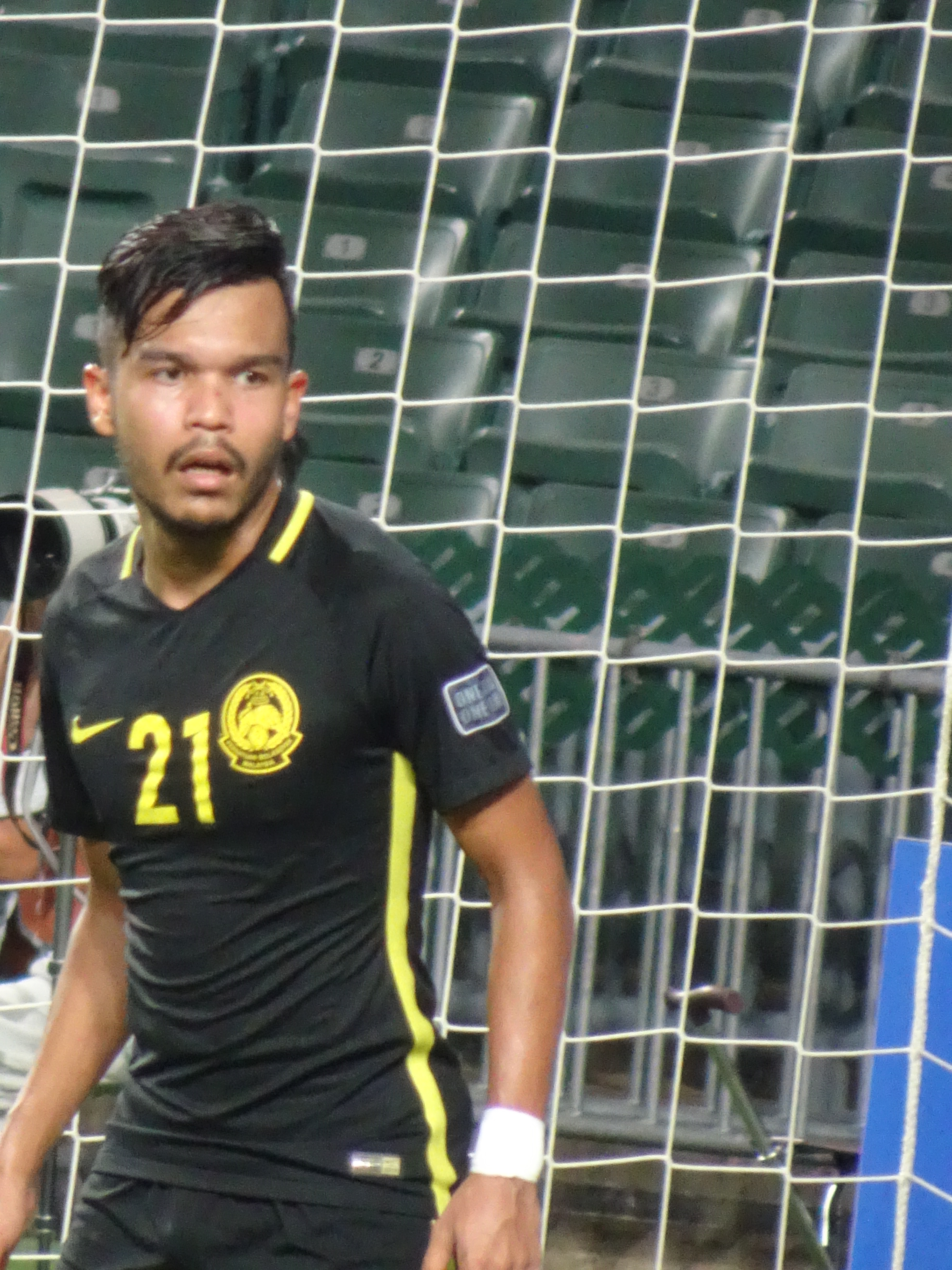 Nazirul Naim Che Hashim (10 Oct 2017, Asian Cup Qualifier, Hong Kong vs Malaysia, Hong Kong Stadium)